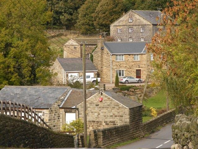 Midhopestone